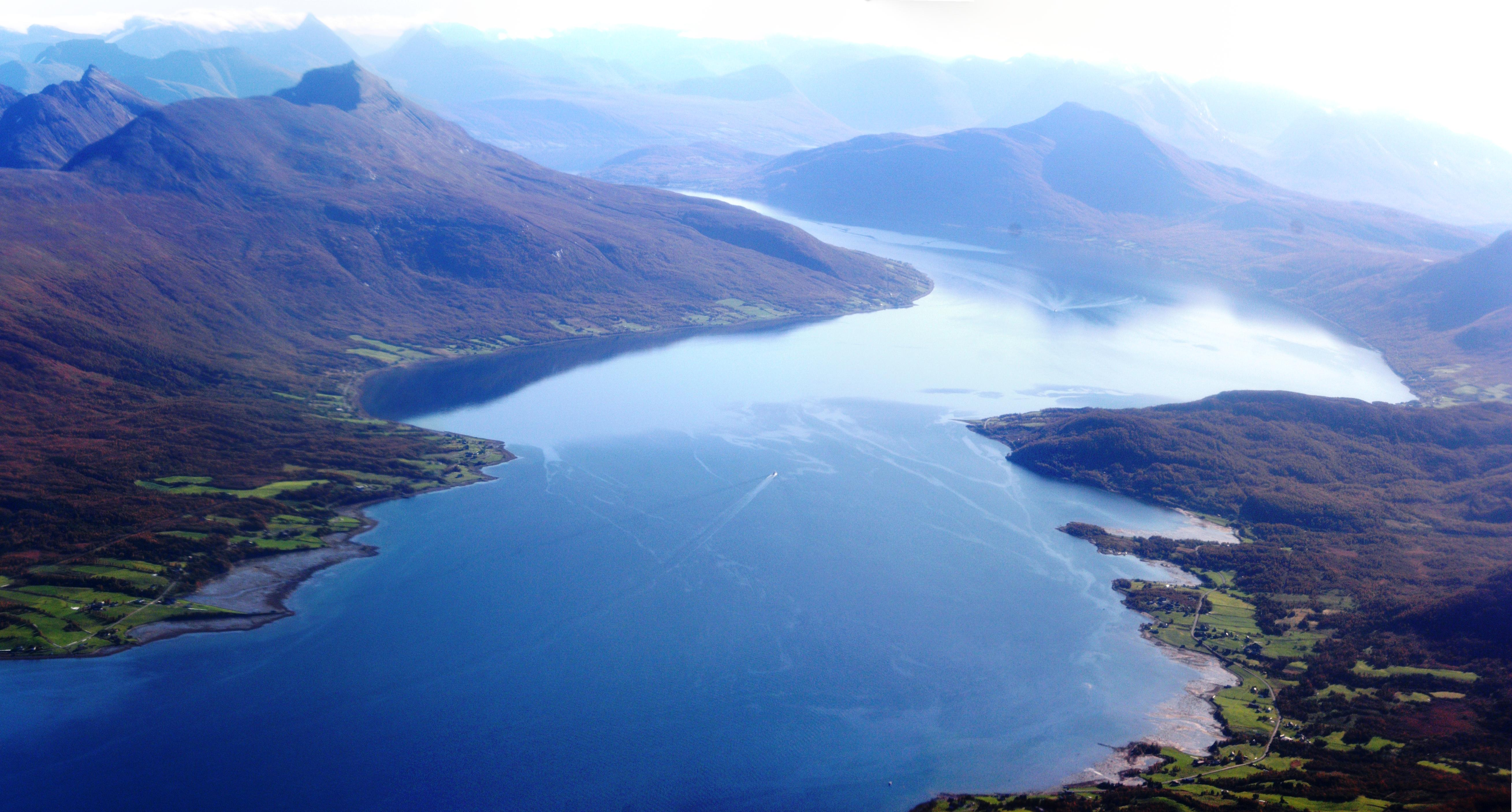 Balsfjord, south of Troms]o, Troms county, Norway. Seen from the northwest owards southeast.